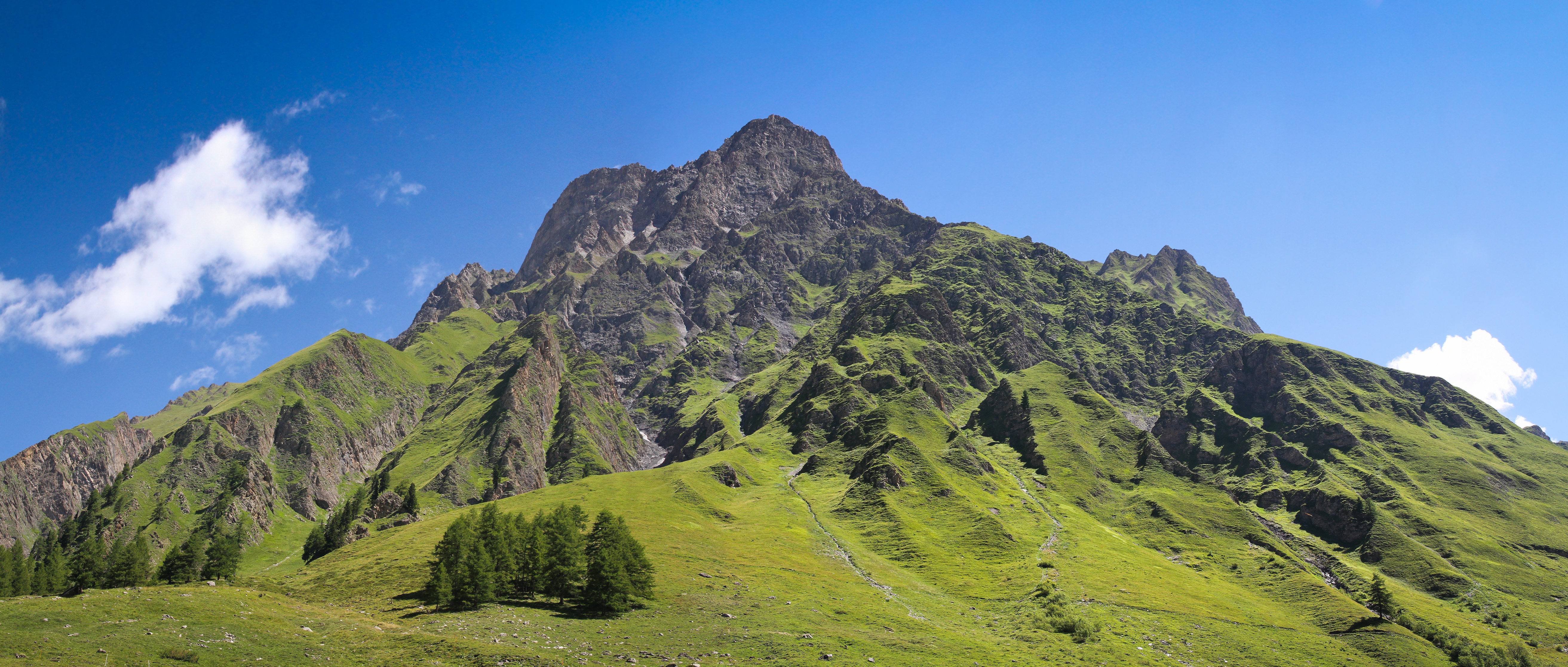 The green mountain La Tsavre as seen from near the small settlement of Ferret in Val Ferret valley, Valais, Switzerland in 2010 August.